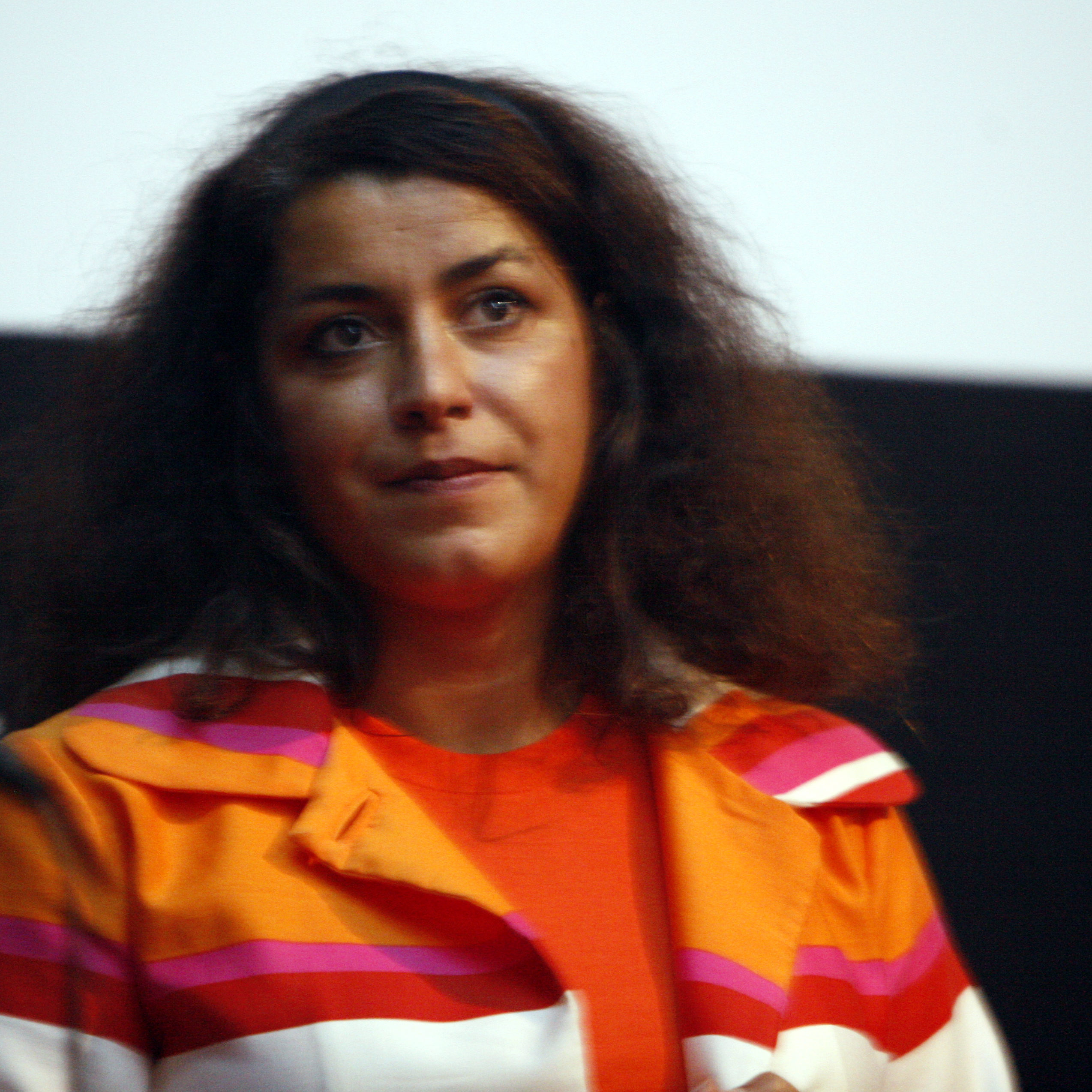 Marjane Satrapi during a premiere of her film Persepolis